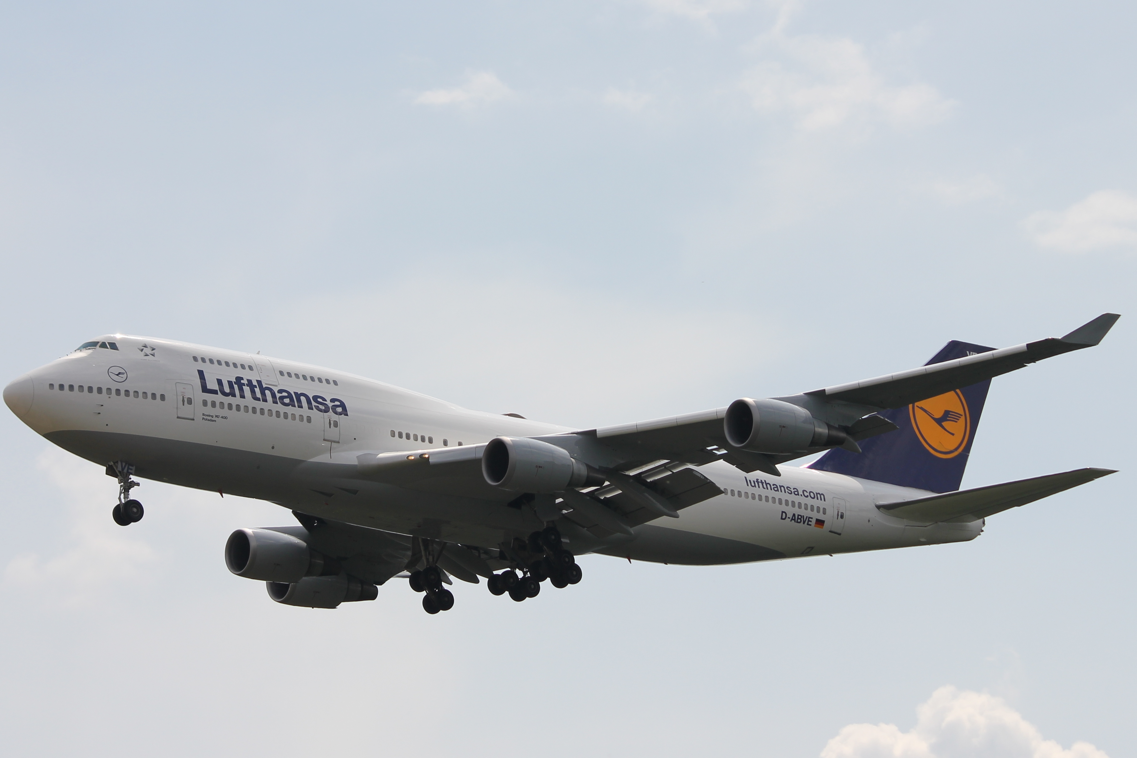 Lufthansa 747-400 lands at Frankfurt intl. Airport.